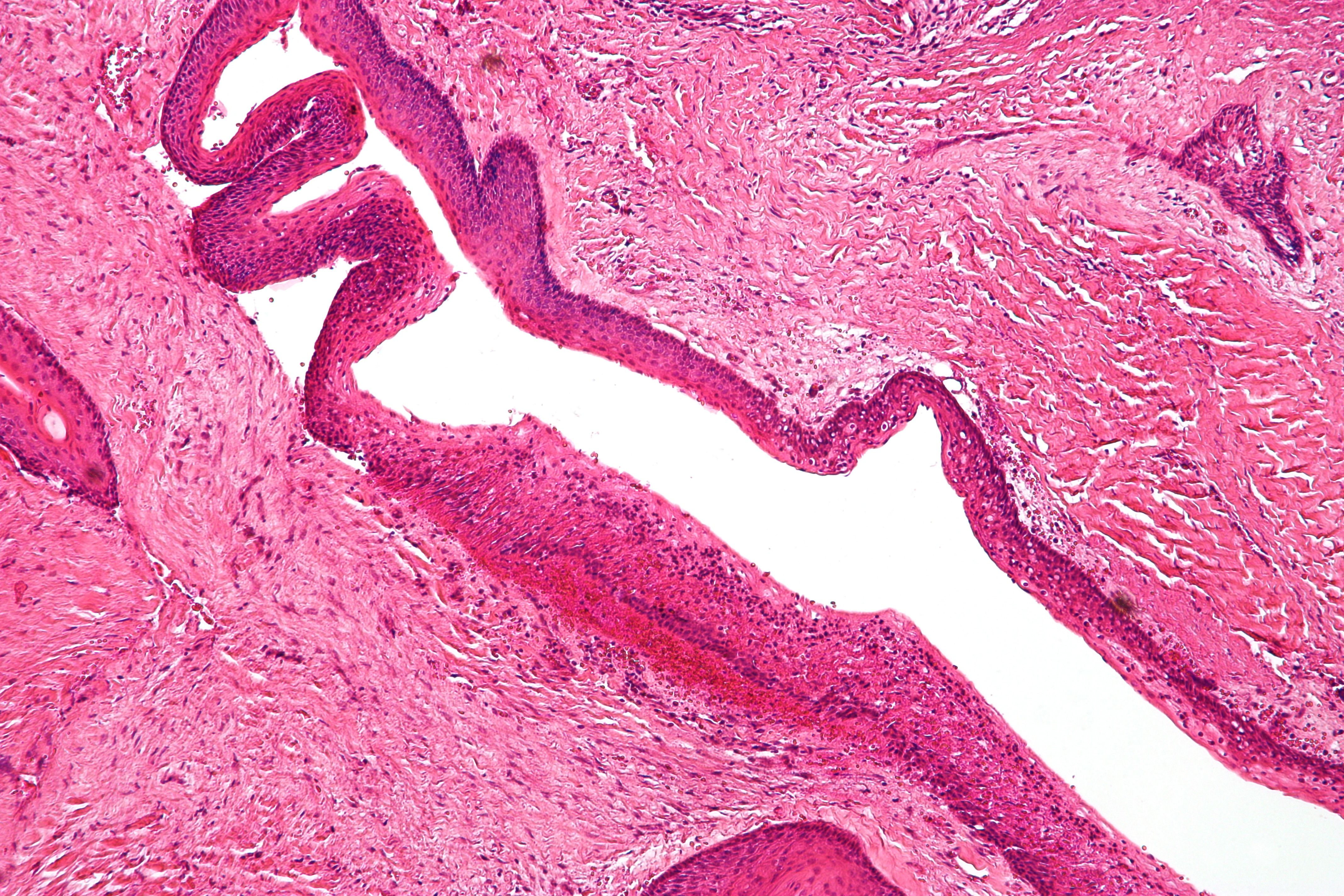 Micrograph of a keratocystic odontogenic tumour (KCOT), previously called odontogenic keratocyst. H&E stain. Histology: Stratified squamous epithelium with keratinization. Lack of rete ridges (typical of stratified squamous epithelium elsewhere). Often have often have an artefactual separation from their basement membrane. Parakeratosis (keratinized cells with nuclei) -- key feature. See also Image:Keratocystic odontogenic tumour1.jpg Image:Keratocystic odontogenic tumour2.jpg